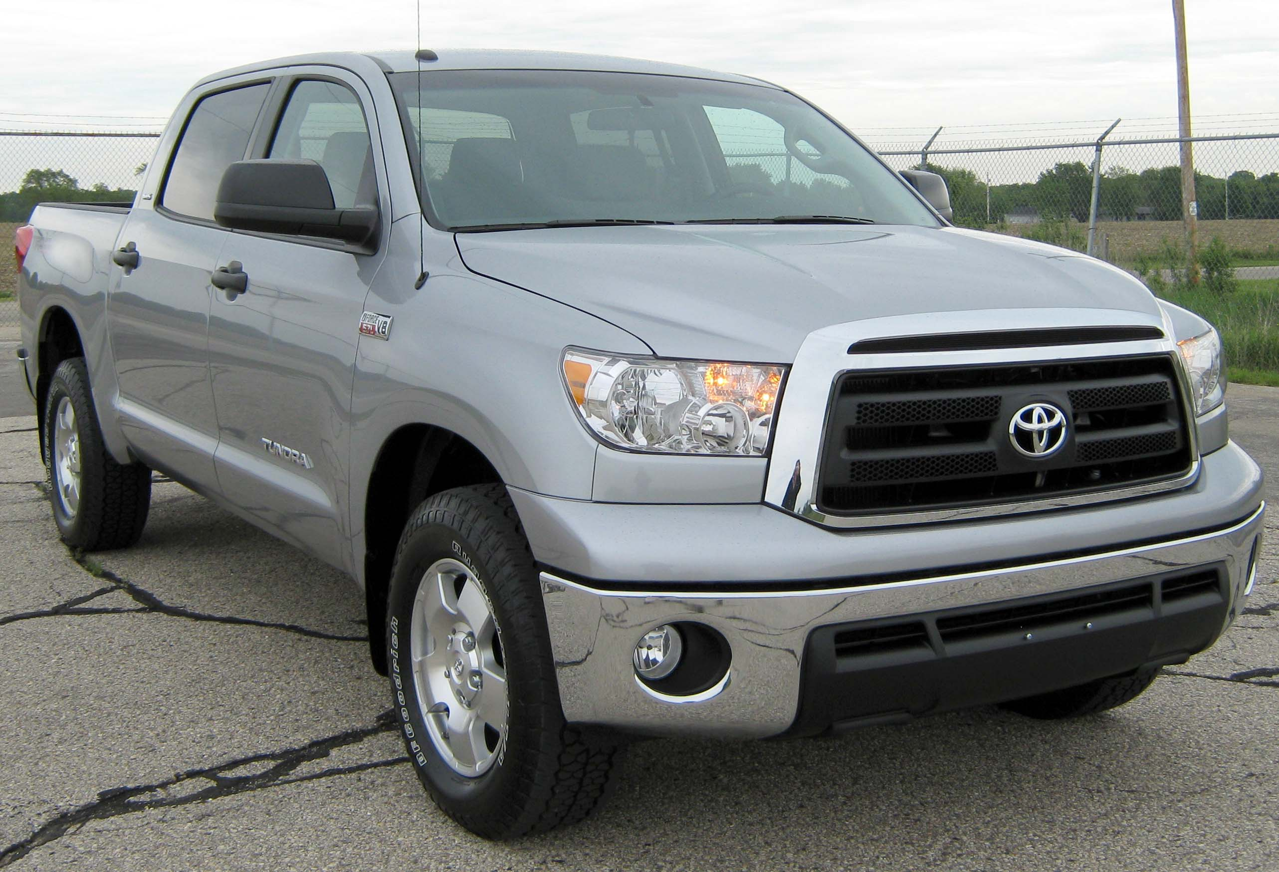 2010 Toyota Tundra photographed in USA.